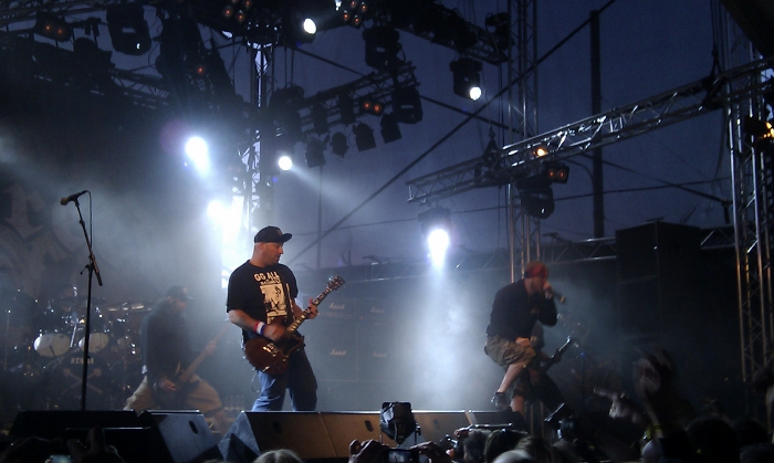 Hatebreed during Metaltown 2010 festival